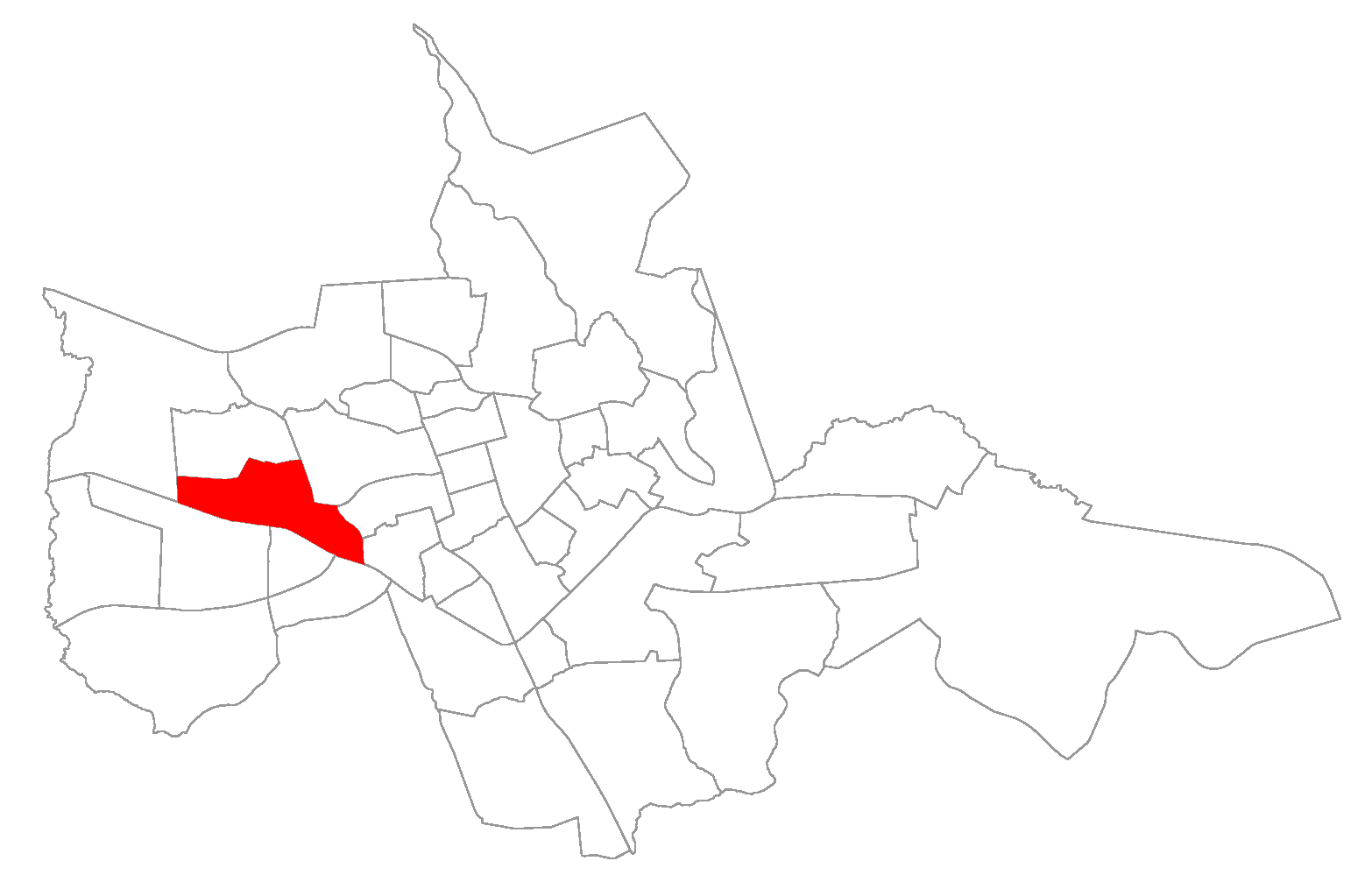 neighborhood/district of Santa Maria, Rio Grande do Sul